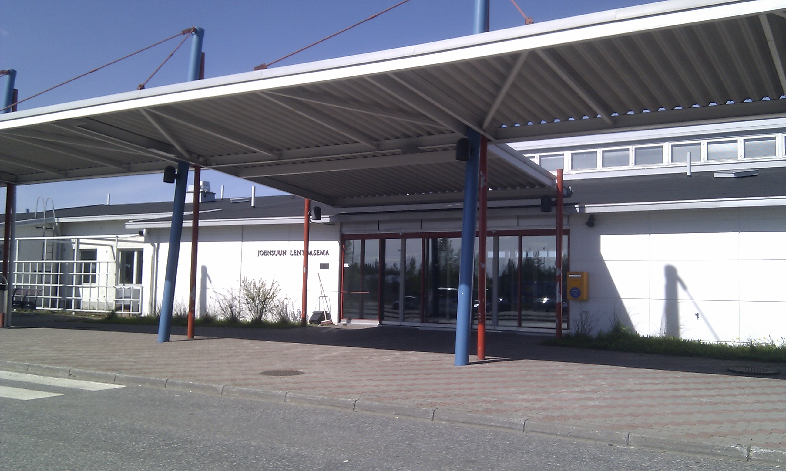 Terminal of Joensuu Airport in Liperi, Finland.